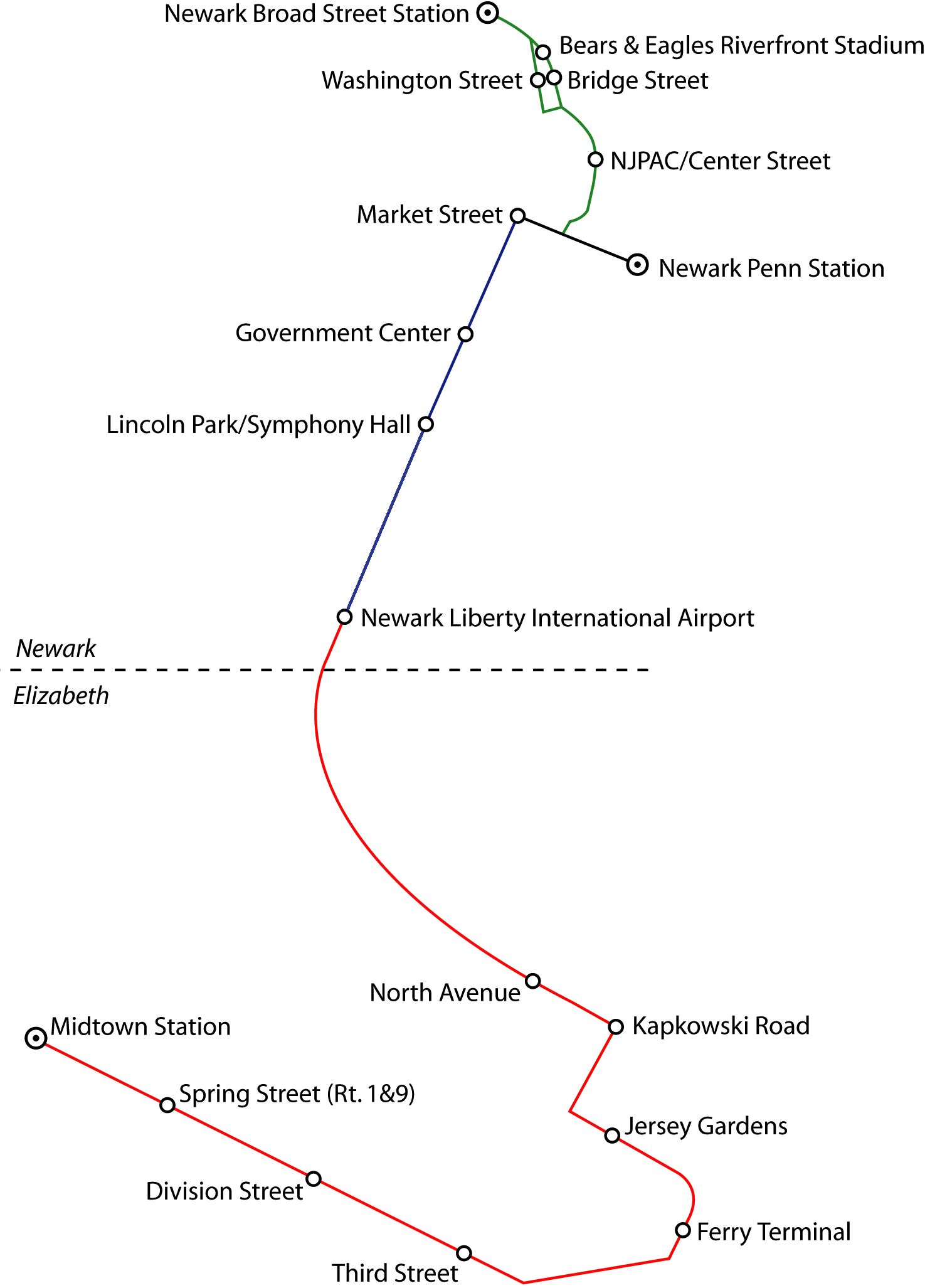 Concept map of proposed Newark-Elizabeth Rail Link.